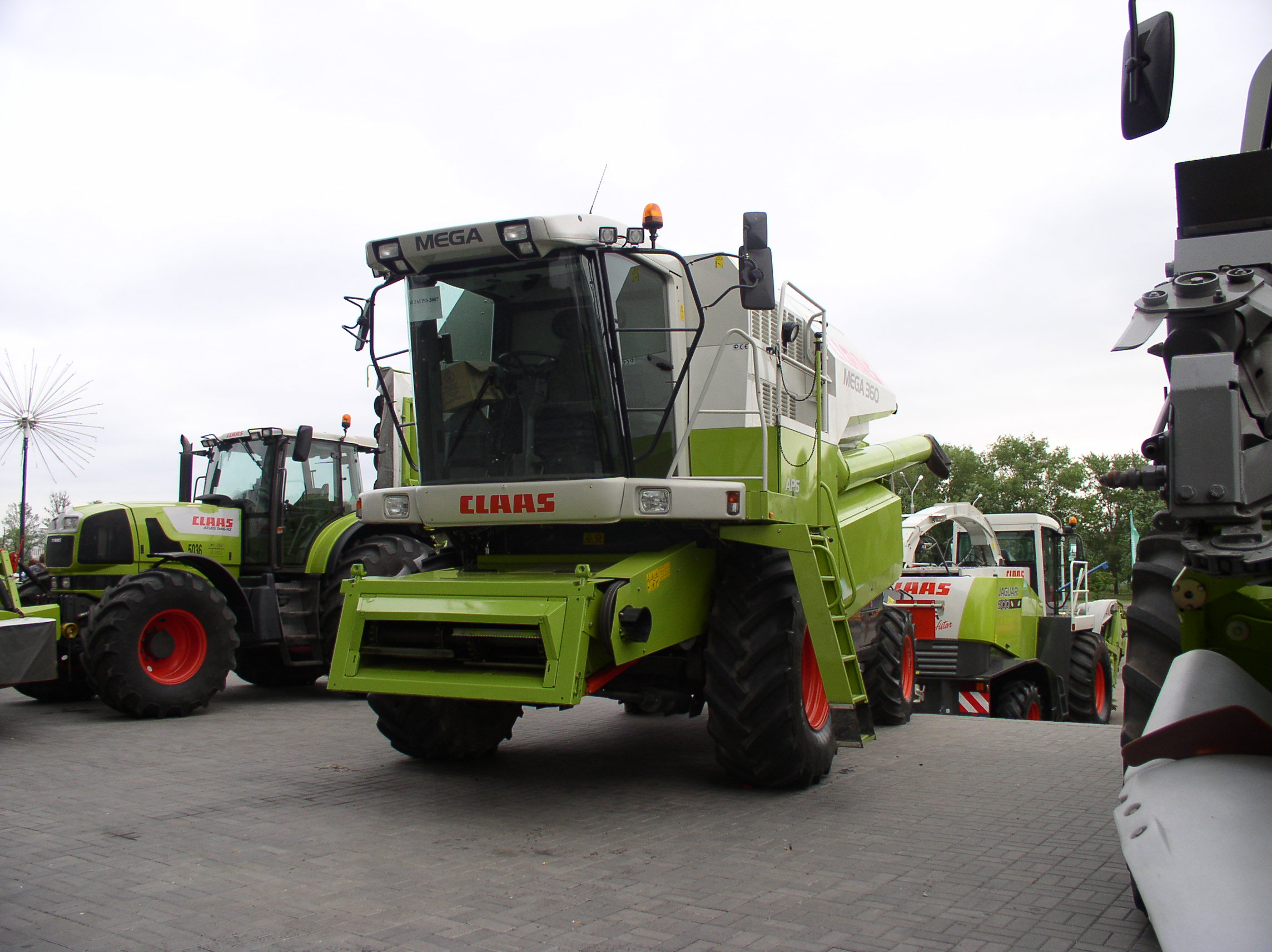 Claas Mega 360. Agriculture Expo in Minsk, Belarus.